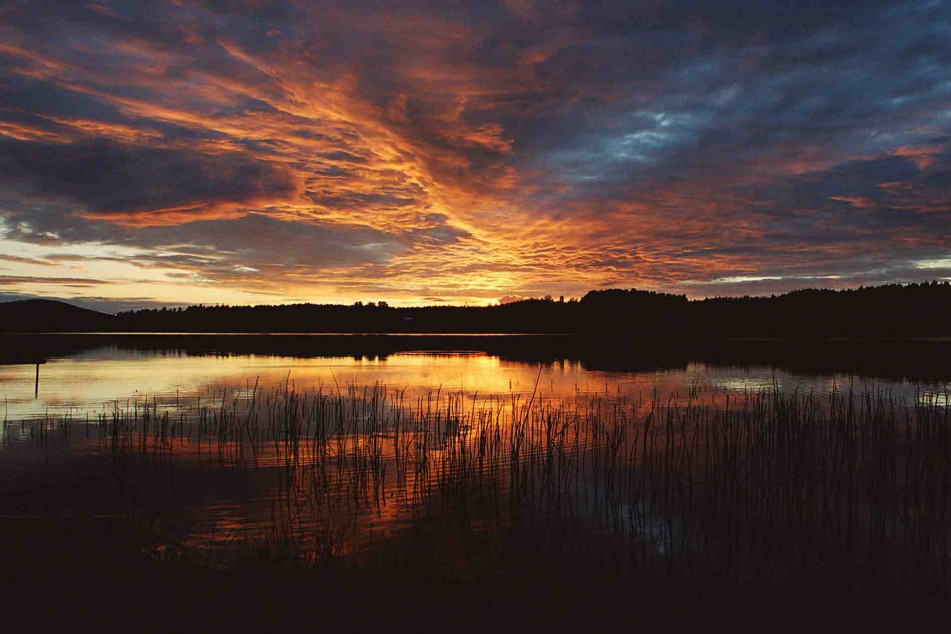 Sunset over the lake Delsbo, Sweden